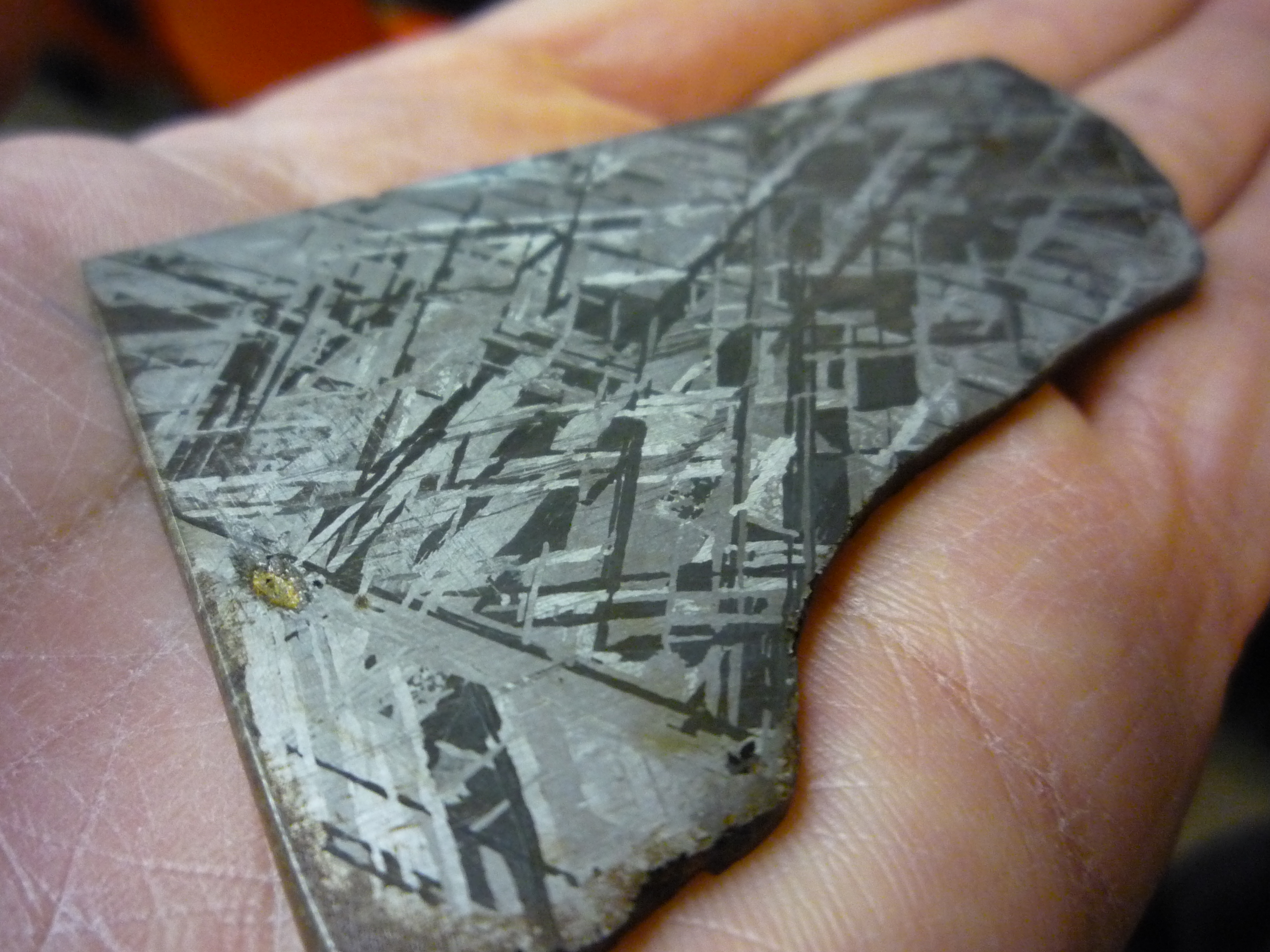 Acid-etched iron meteorite slice, revealing the characteristic Widmanstatten pattern, indicative of slow cooling and crystallization within the iron-nickel cores of larger asteroids. Note the "vug" inclusion on the middle left of the slice. From the California Polytechnic State University Physics Department meteorite collection, presented at the April 2009 meeting of the Central Coast Astronomical Society. Photo by Cuesta College Physical Sciences Division instructor Dr. Patrick M. Len.